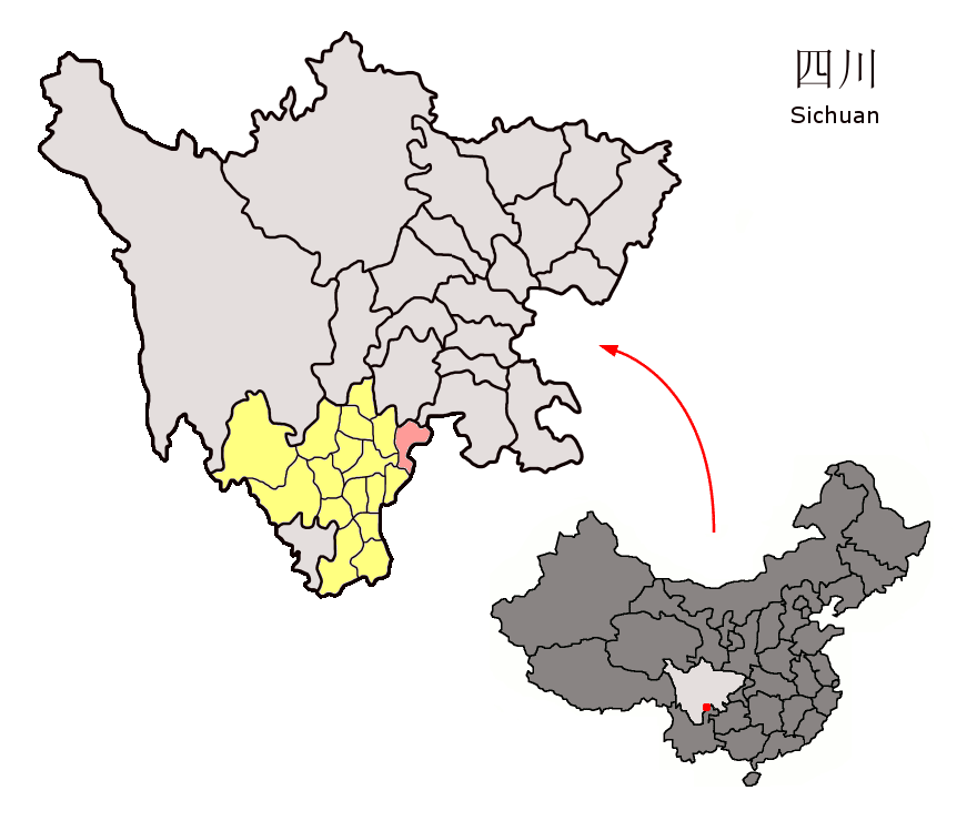 Location of Leibo County (pink) and Liangshan Prefecture (yellow) within Sichuan province of China Map drawn in september 2007 using various sources, mainly : Sichuan province administrative regions GIS data: 1:1M, County level, 1990 Sichuan Counties map from